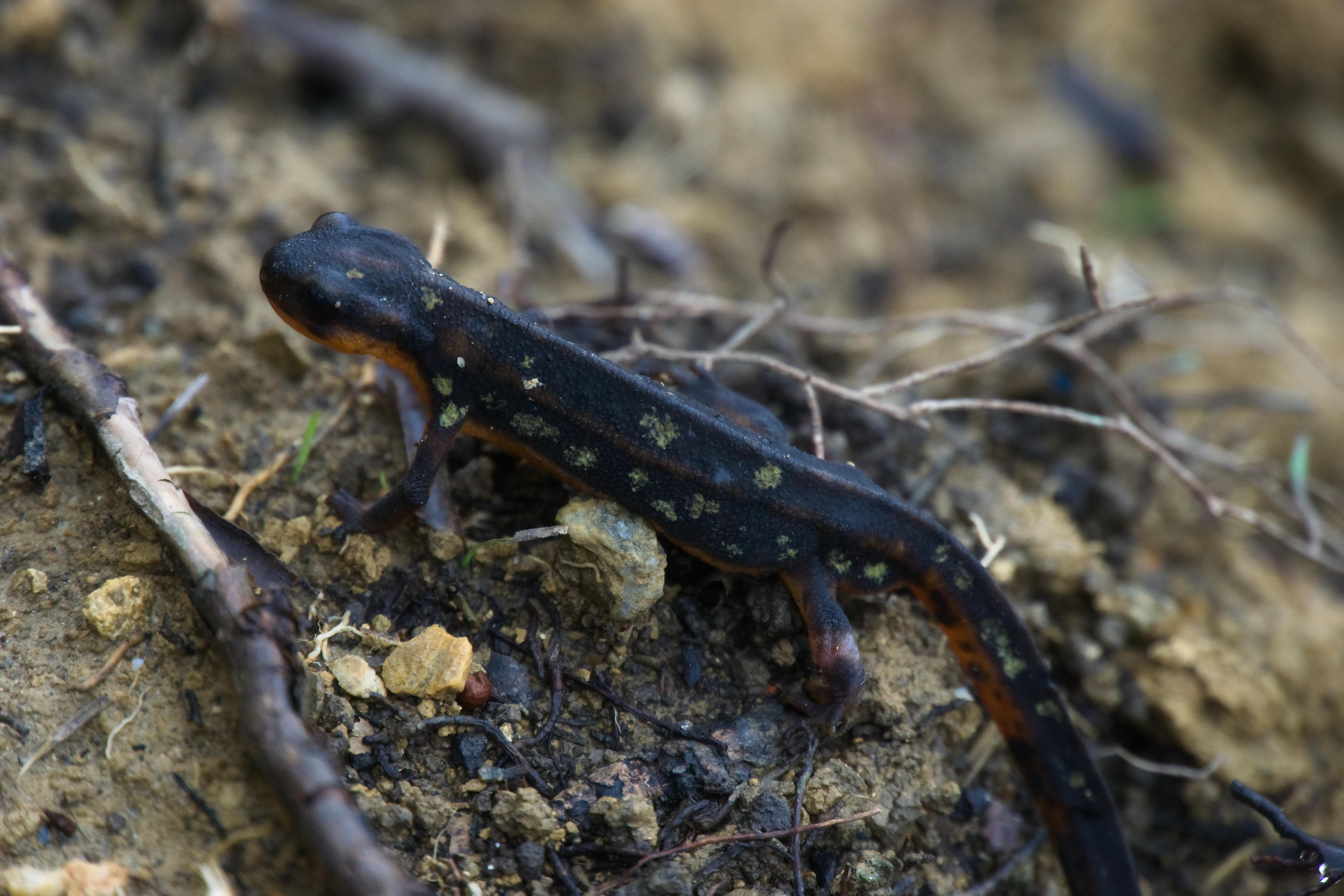 Ryukyu Sword Tailed Newt, or Firebellied Newt in OIST construction site